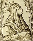 This is a portrait image of Joan II of Naples, it was painted during the time of her adult years.